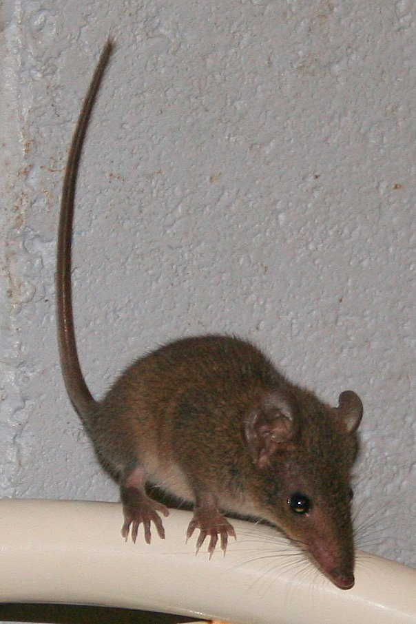 Brown Antechinus, Antechinus stuartii, wild animal.